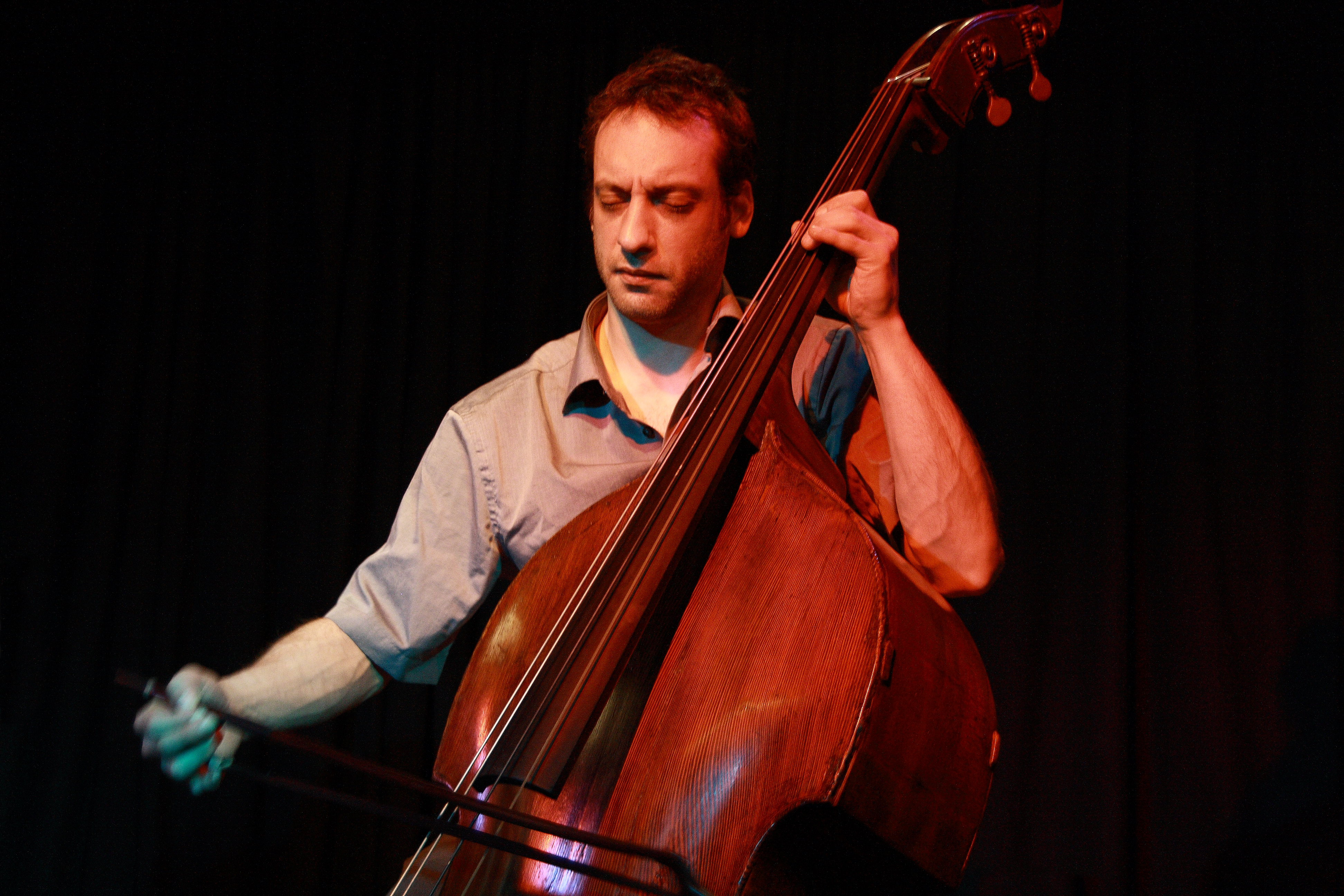 Antonio Borghini at concert in Club W71.